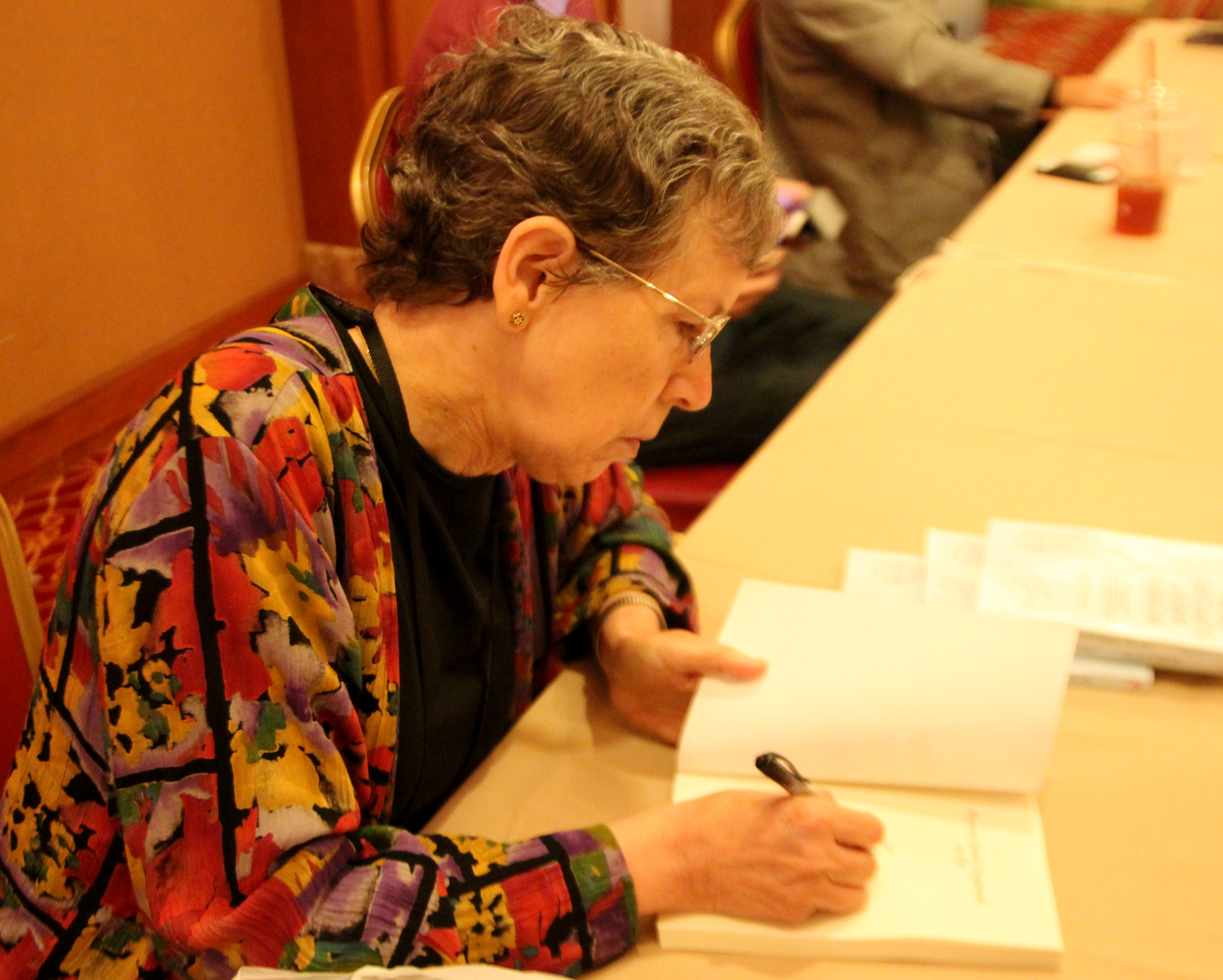 Hall at book signing TAM 2013